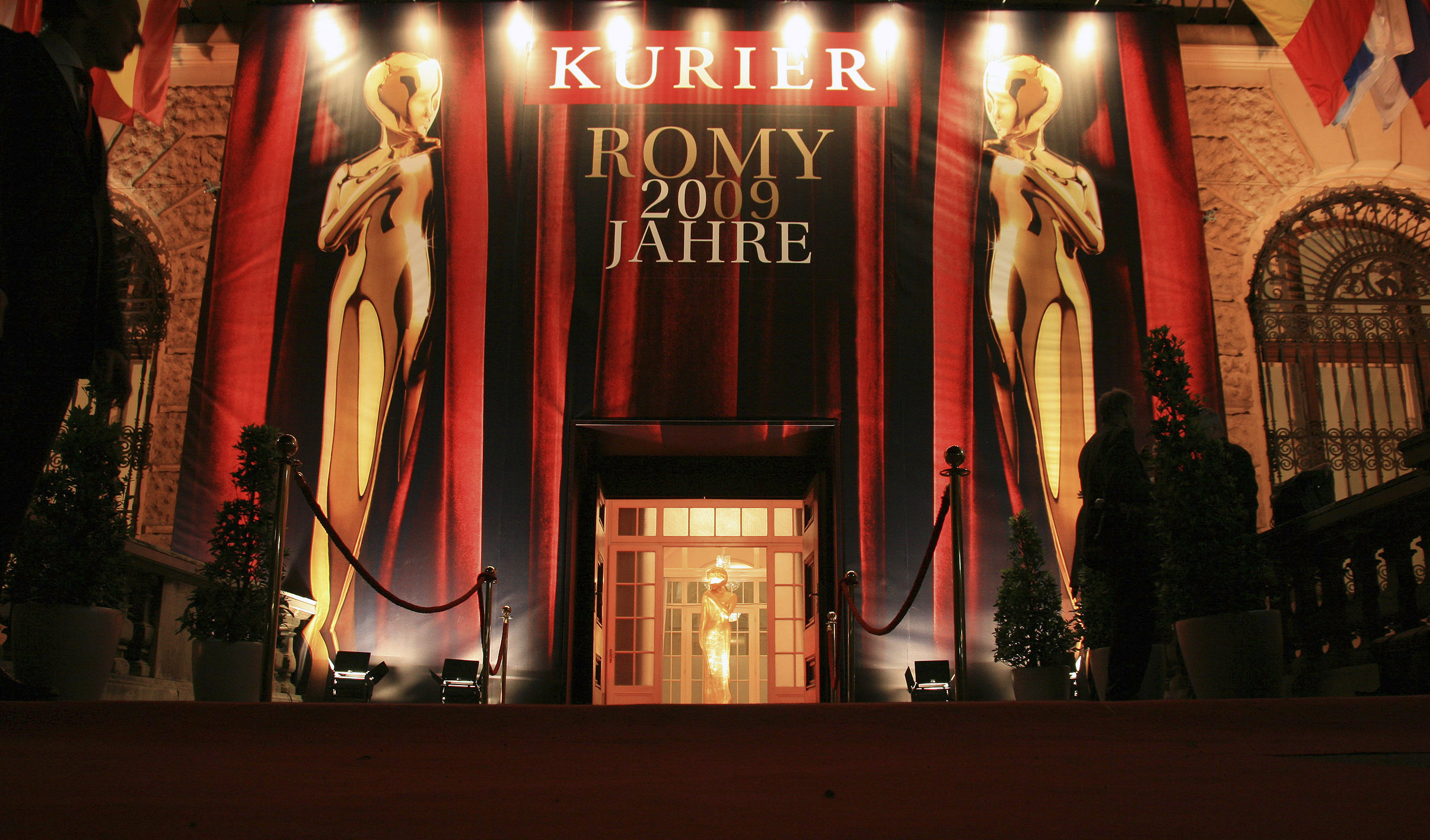 Romy TV awards (Hofburg Imperial Palace in Vienna)